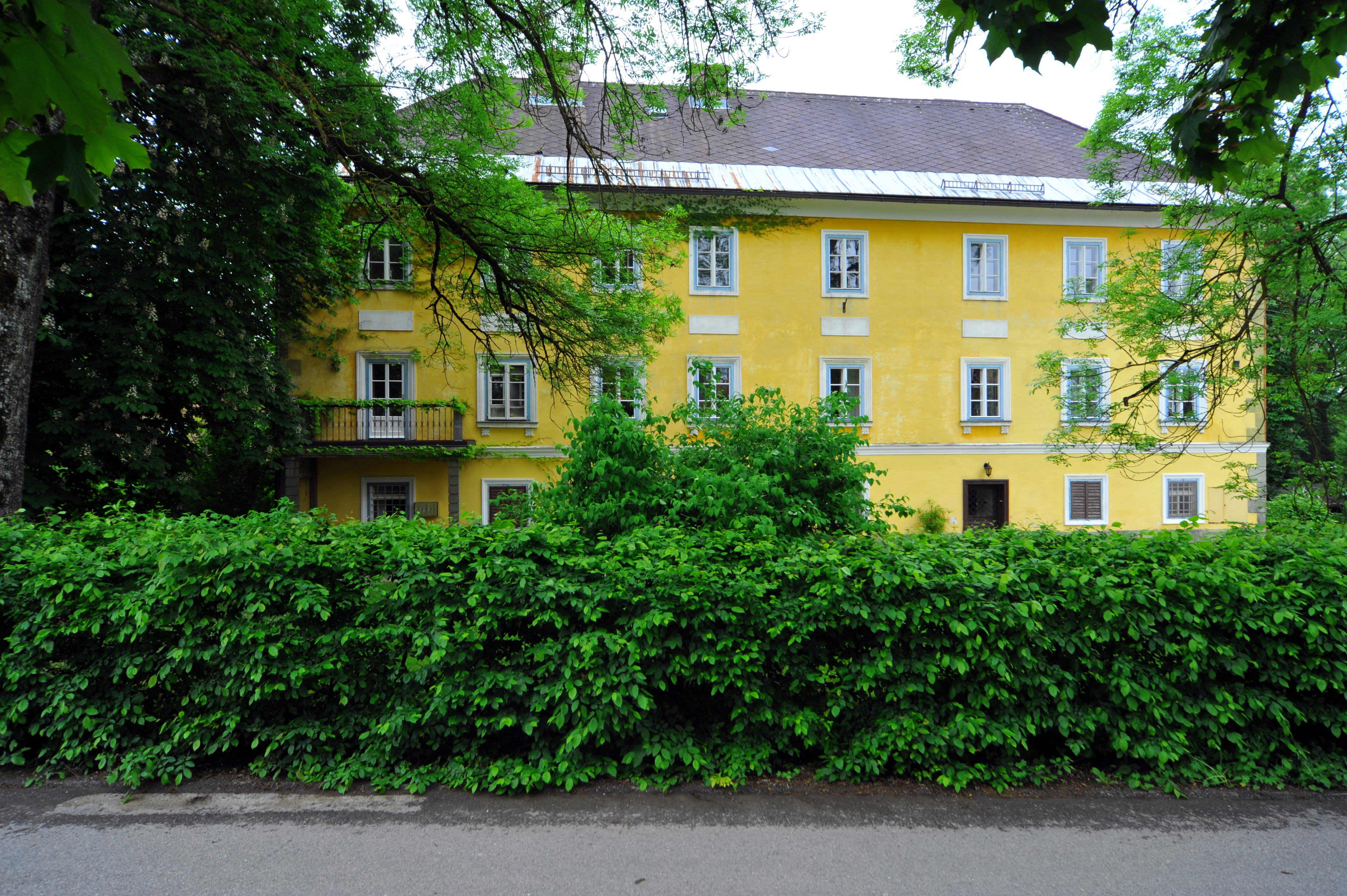 North view at the manor-house "Farchernhof" on the Farchernhofweg #74, situated in the 15th district “Hörtendorf” of the Carinthian capital Klagenfurt on the Lake Woerth, Carinthia, Austria